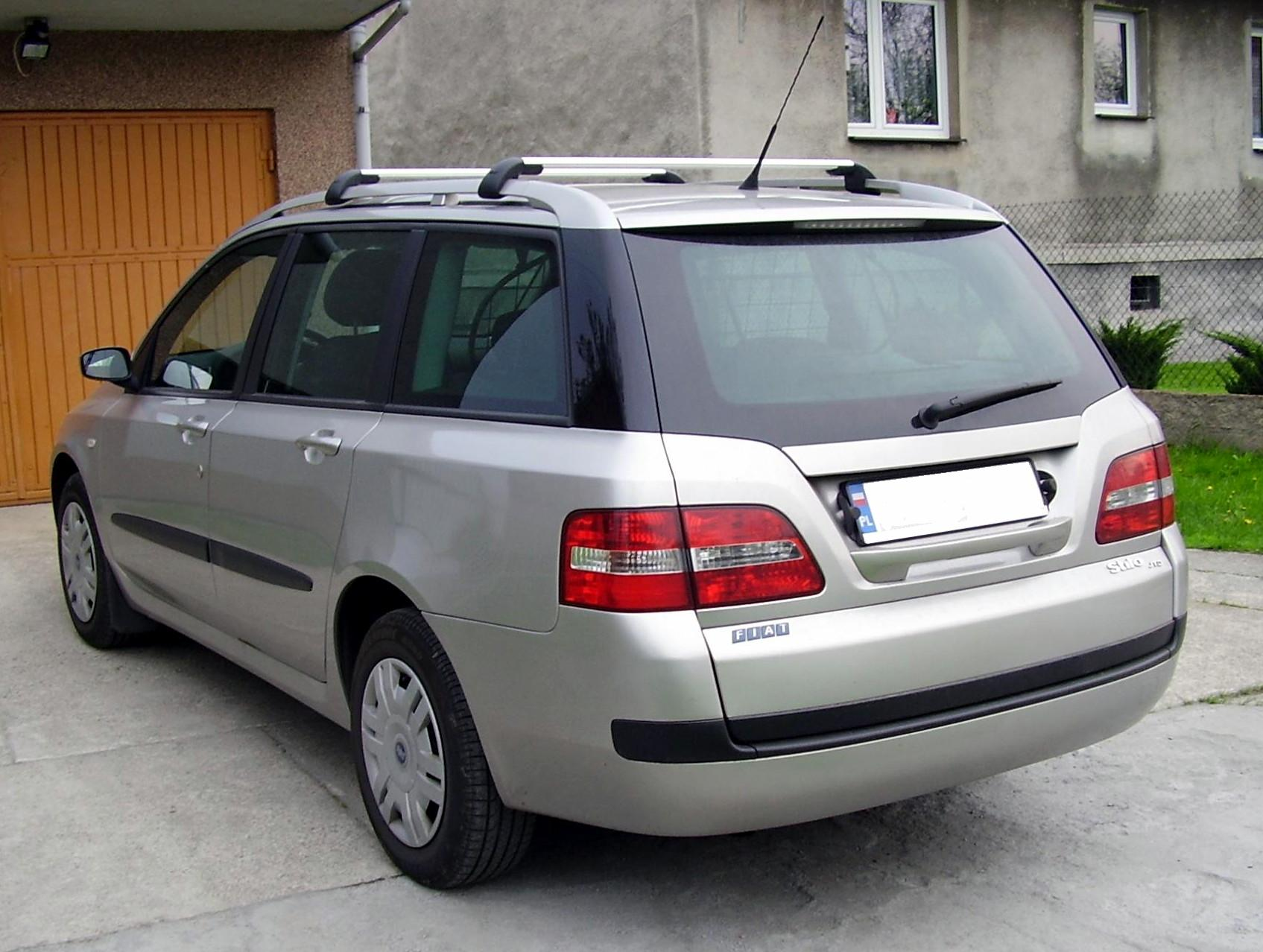 Fiat Stilo Multiwagon in Rzezawa (Poland)